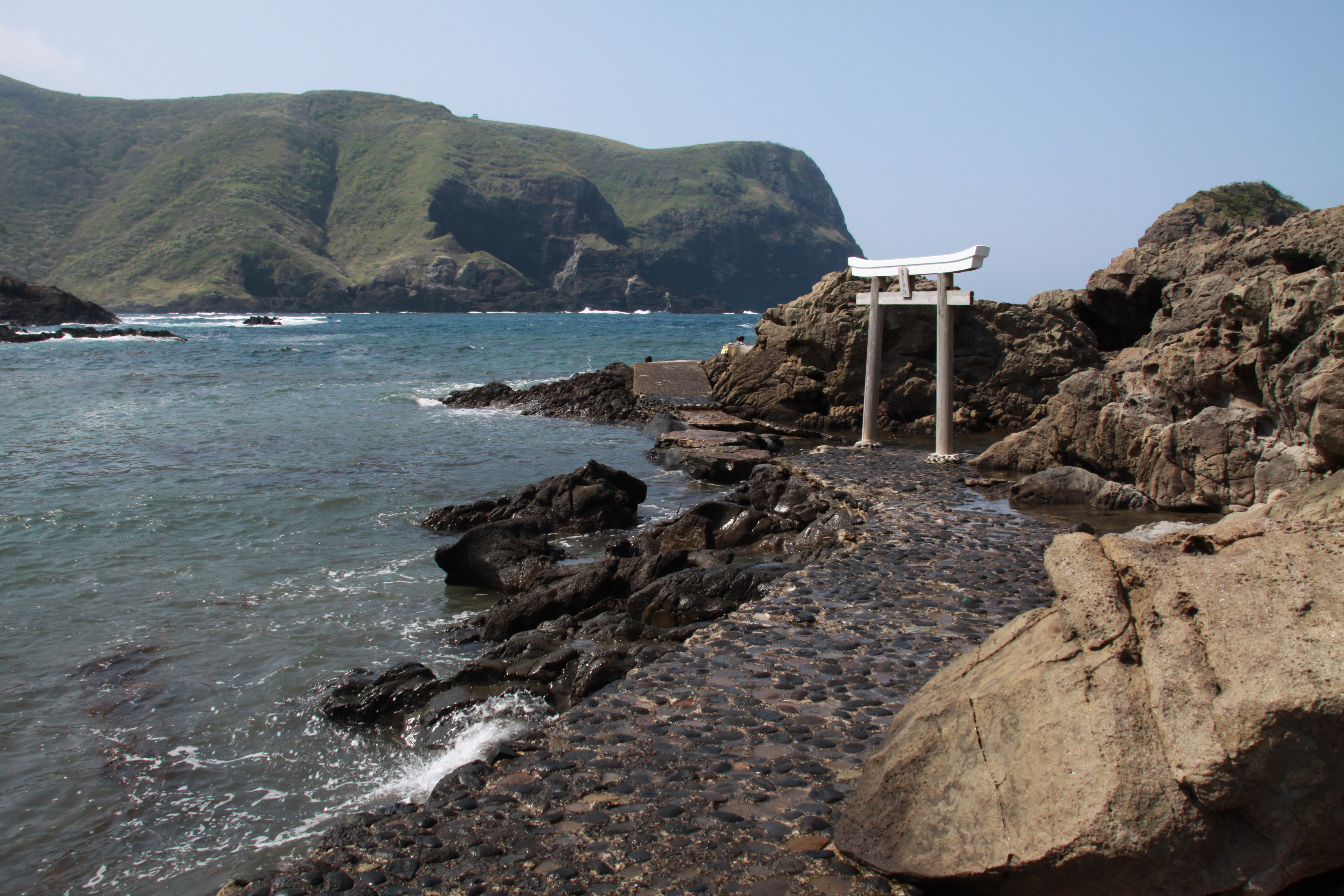 Torii at Kuniga coast, Nishinoshima